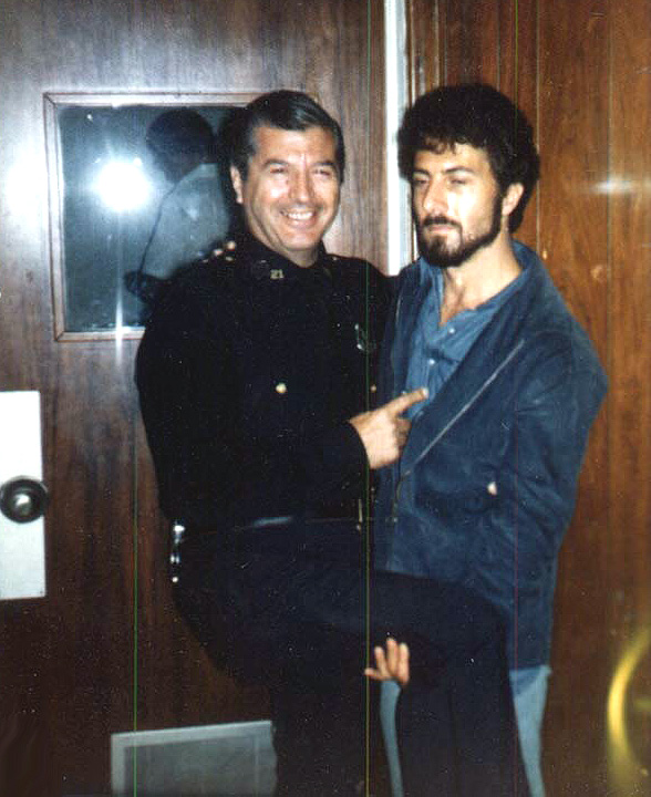 Polaroid of Outake from Lenny 1974